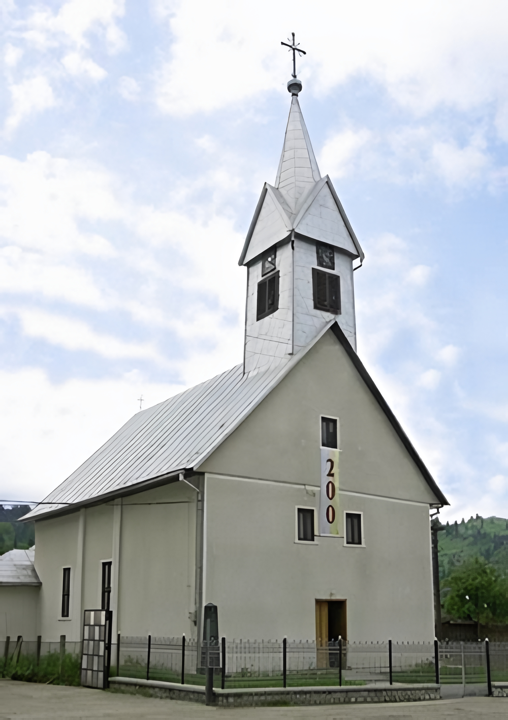 a